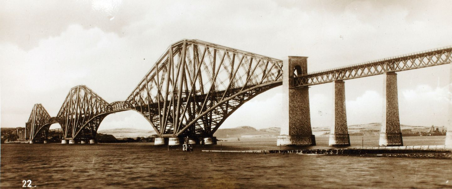 The Fourth Bridge